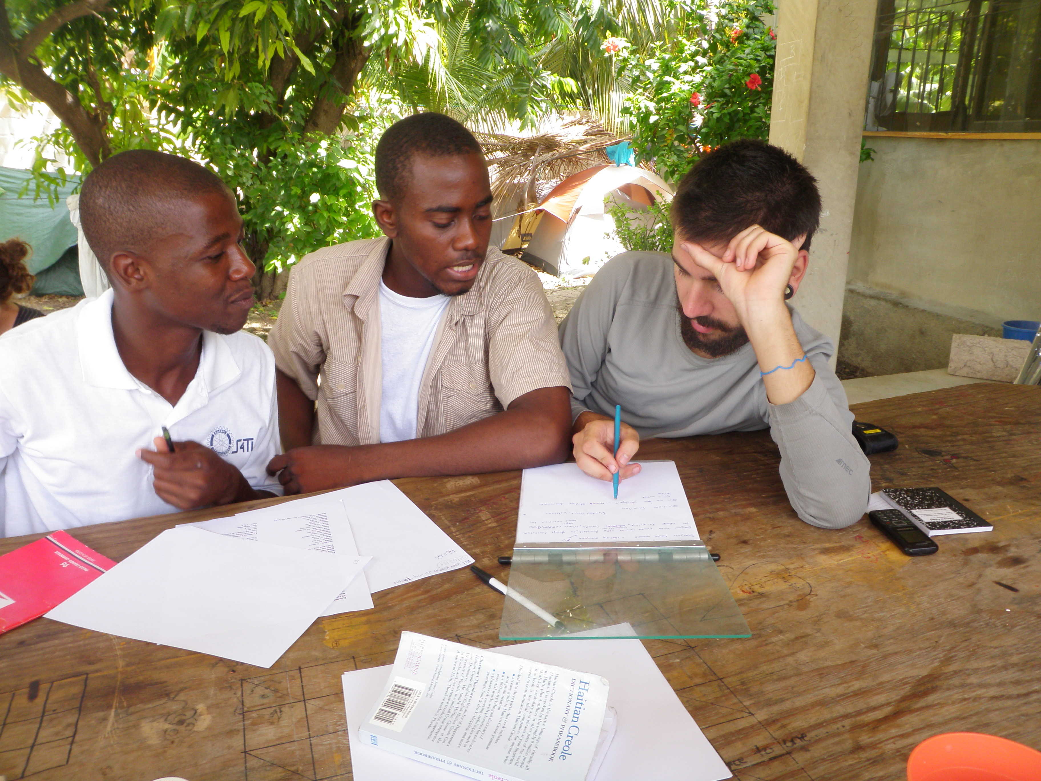 A French-speaking Canadian volunteer helps two Haitian students with their English. The volunteer was in Haiti with the volunteer group EDV to help recovery efforts after the earthquake in early June 2010.